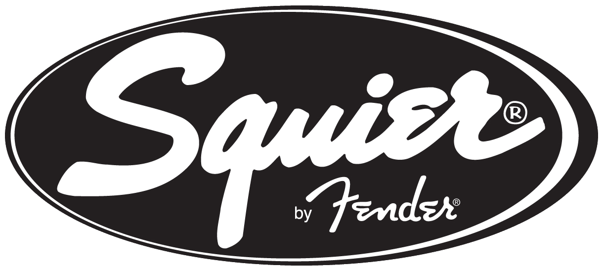 Logo of Squier, a subsidiary of Fender, the guitar manufacturer of USA.